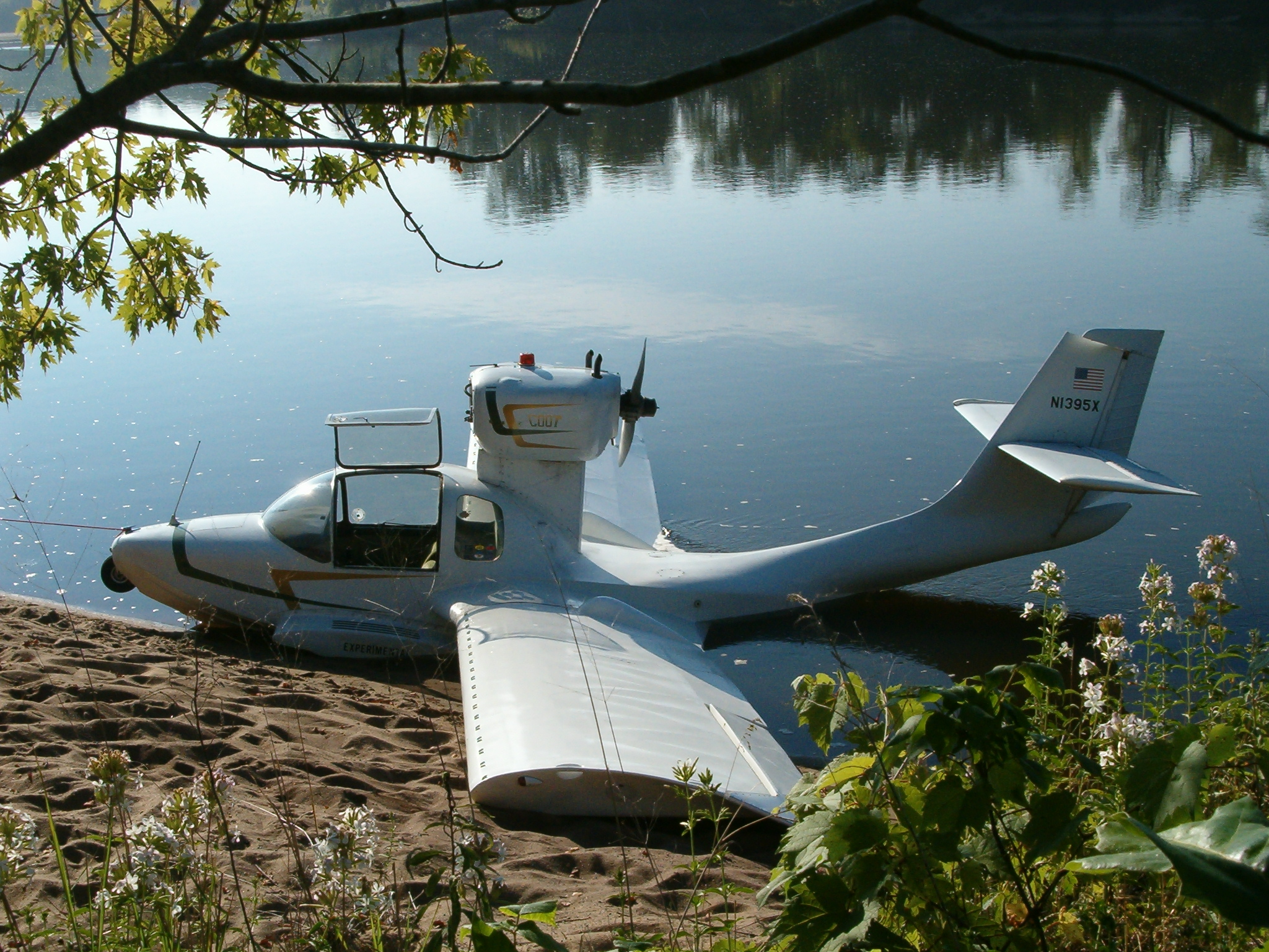 Taylor Coot amphibious aircraft (N1395X)